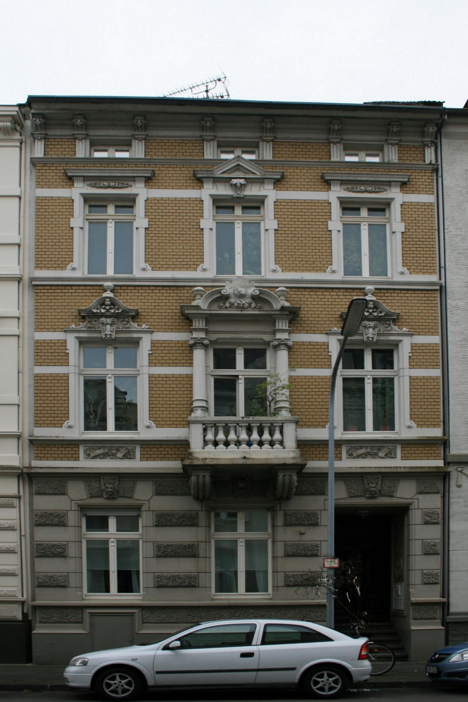 Cultural heritage monument No. St 010 in Mönchengladbach